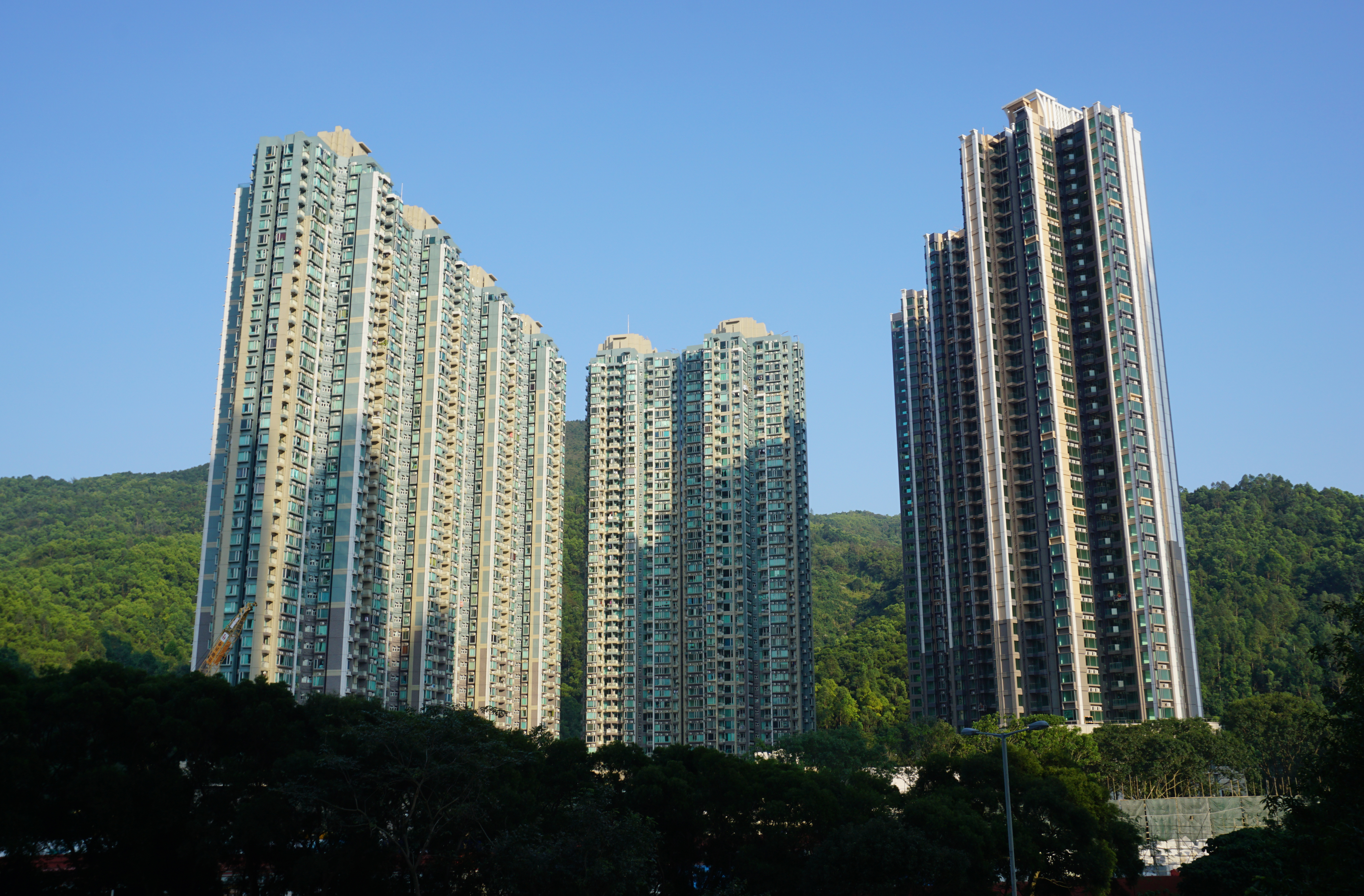 The Beaumount in Tseung Kwan O, Hong Kong.